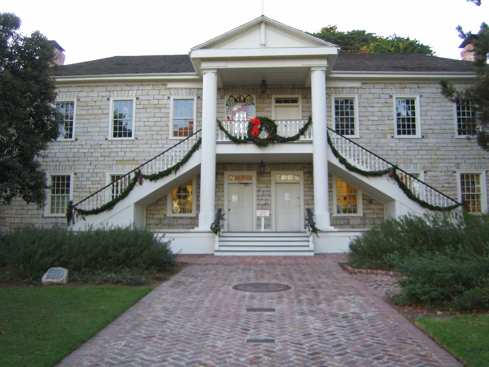 Taken December of 2005 by Jaybeatle 01:38, 6 December 2005 (UTC).